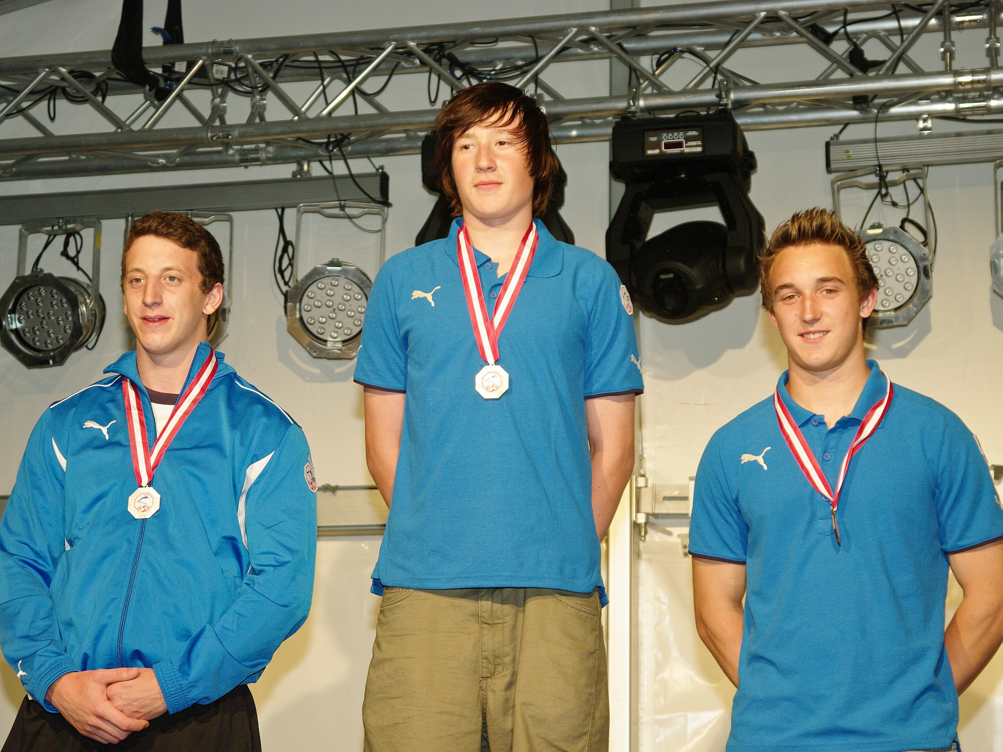 Austrian Grasski Championships 2010 in Rettenbach: Medal ceremony Juniors Super-G: 1st place and Austrian Junior Champion: Hannes Angerer (middle), 2nd place: Daniel Gschwandtner (left), 3rd place: Nico Balek (right)